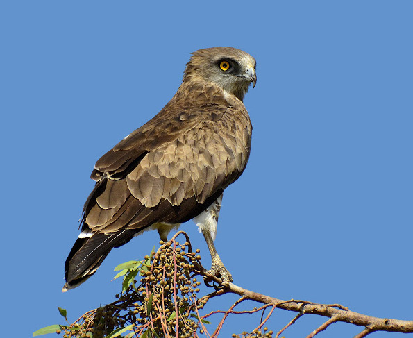 Wildlife and Plants of Israel